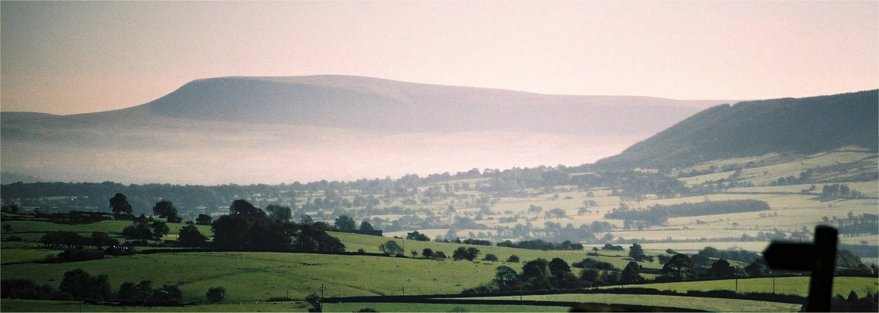 Pendle Hill, in Lancashire, England. To the right is the east end of Longridge Fell. Mist lies in the Ribble valley between them. Photographed from Beacon Fell.